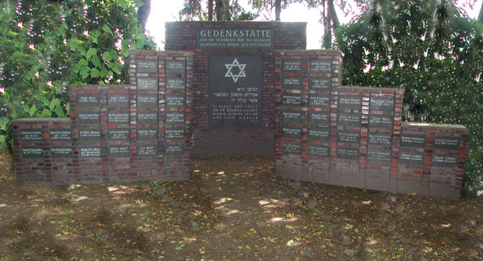 jewish memorial in Wittmund